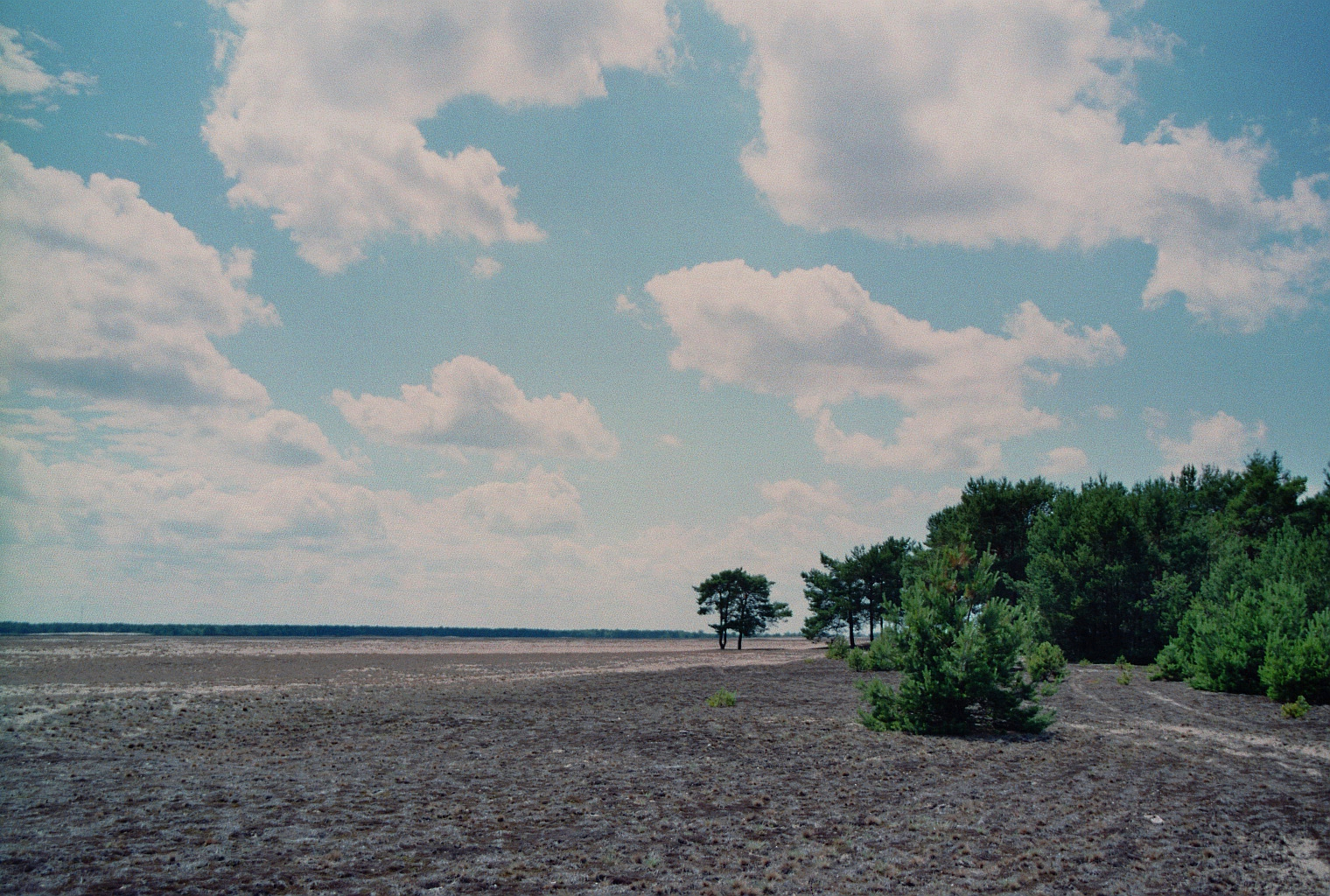 Lieberose Desert (Lieberoser Wüste) in the Lieberoser Heide near Lieberose, Landkreis Dahme-Spreewald, Brandenburg, Germany. It is Germany's largest desert. (Photo taken on a guided tour.)